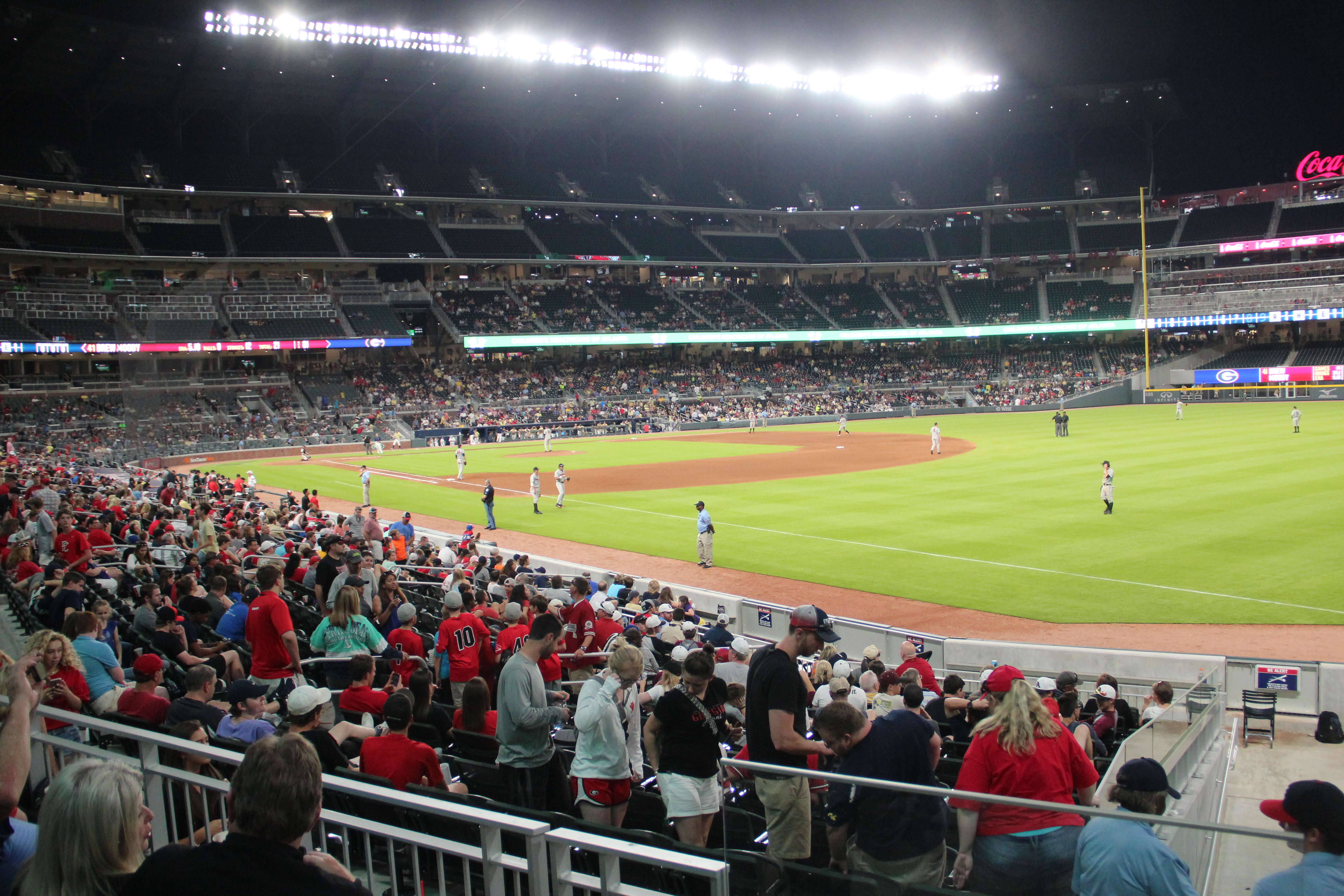 SunTrust Park view from right field